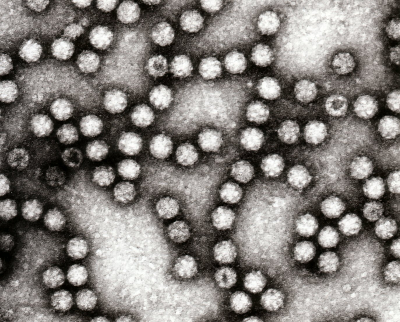 Transmission electron micrograph of Astrovirus particles